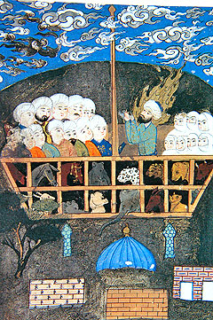 Noah's Ark. Islamic miniature